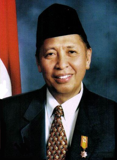 Official Portrait of Hamzah Haz